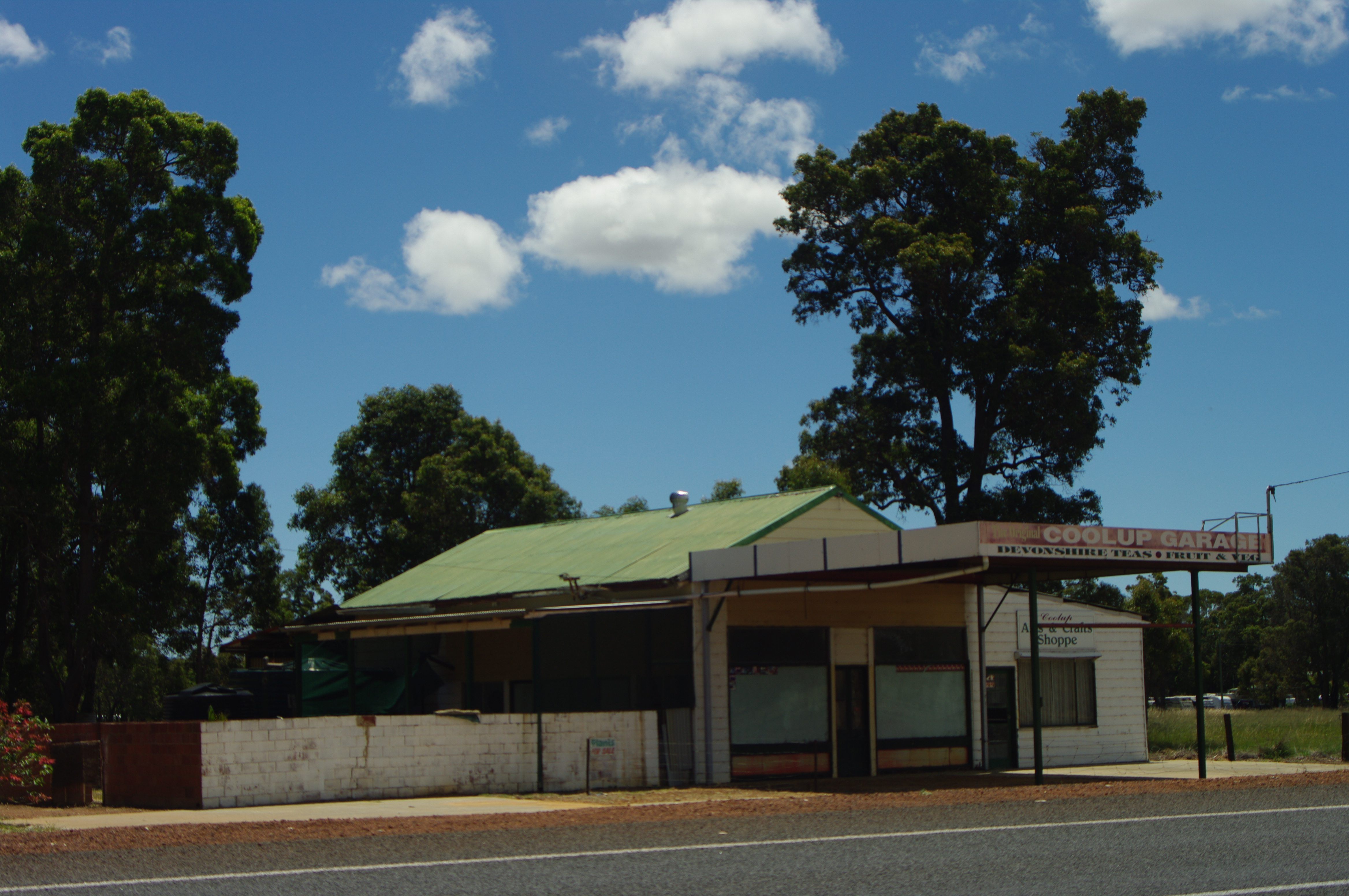 Coolup, Western Australia